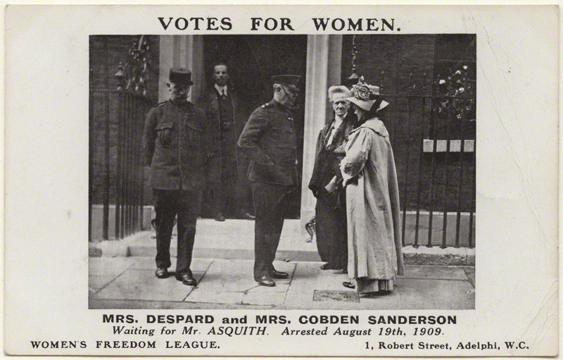 Charlotte Despard (née French); Anne Cobden-Sanderson with three unknown men 19 August 1909 at No 10 Downing Street